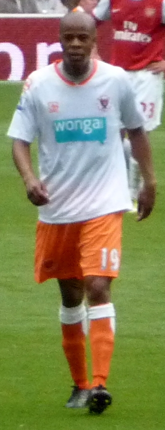 Ludovic Sylvestre, cropped from Arsenal vs Blackpool